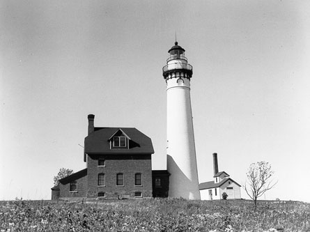 Public Domain statement here; The Outer Island lighthouse is a lighthouse located on the northern tip of Outer Island, one of the Apostle Islands, in Lake Superior in Ashland County, Wisconsin, near the city of Bayfield.